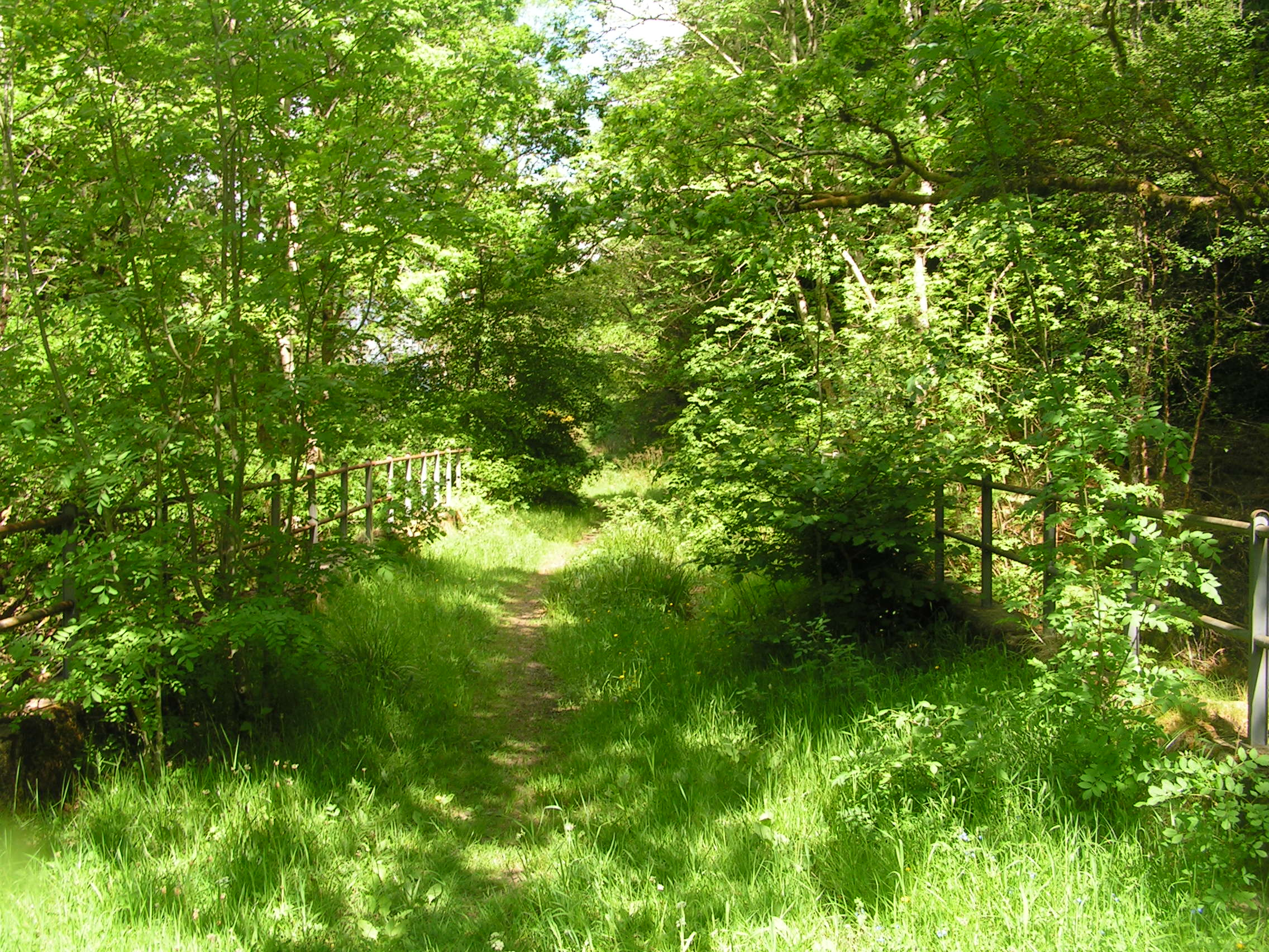 Dismantled Spean Bridge - Ft Augustus railway.